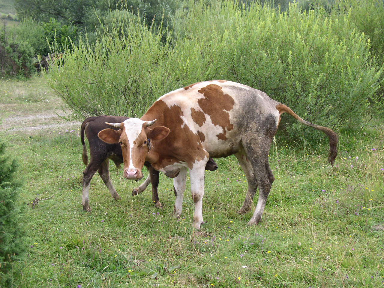 Cow and calfs